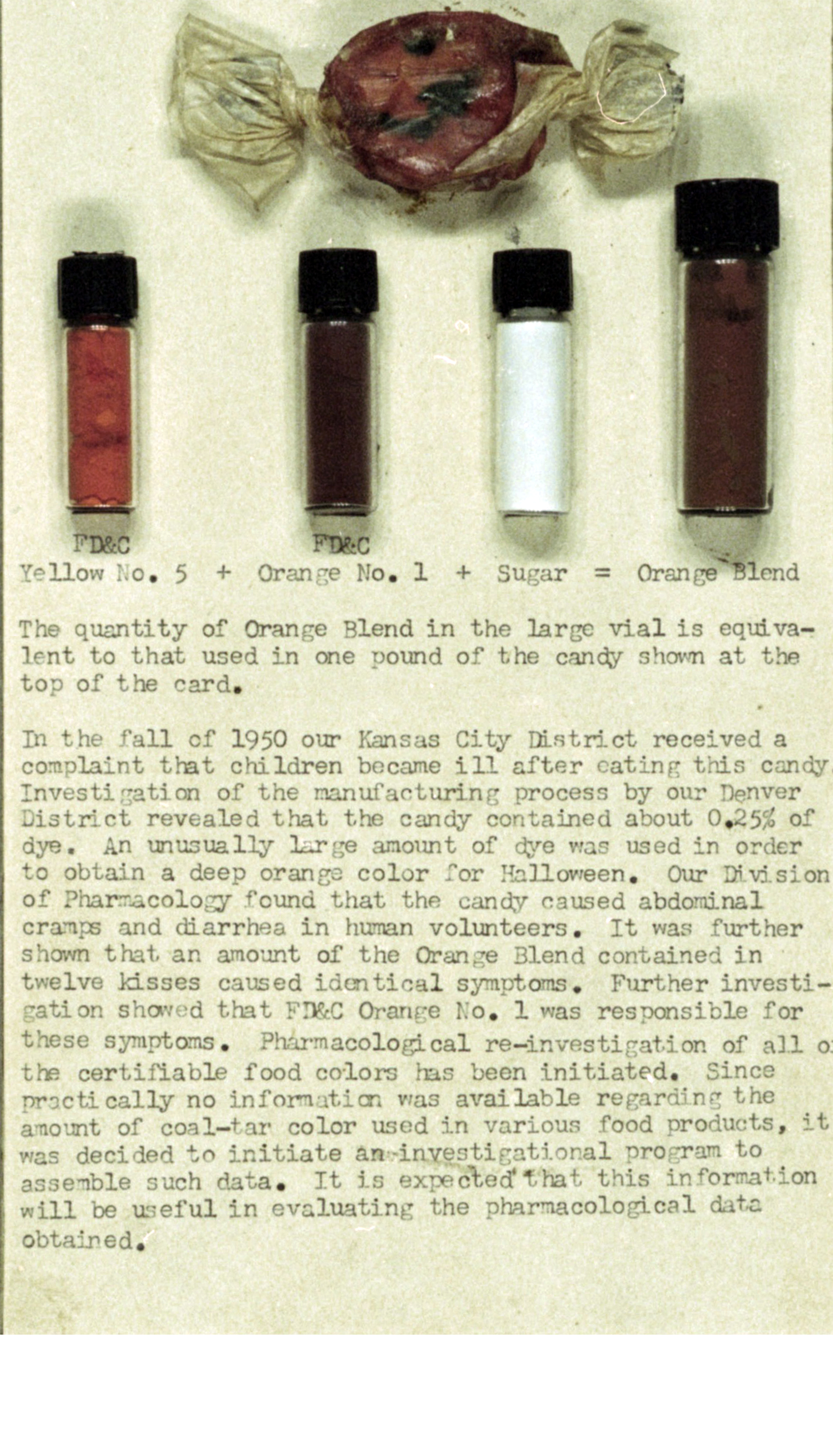 Following a detailed investigation by FDA pharmacologists, FD&C Orange No. 1 was removed from use in foods in November 1955, relegated to external use in drugs and cosmetics. For more information about FDA history visit